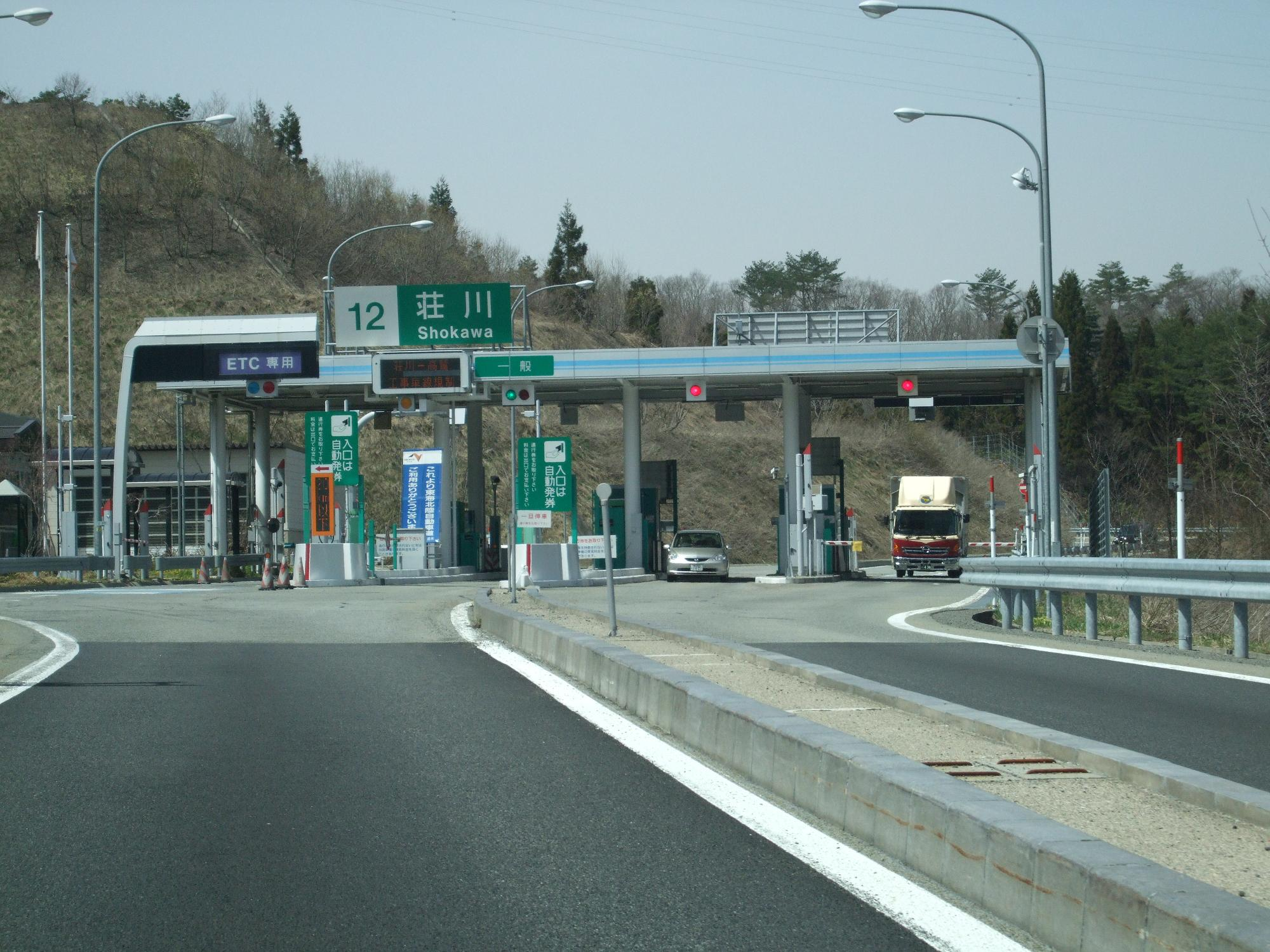 Toll gates at Shokawa Interchange on the Tokai-Hokuriku Expressway